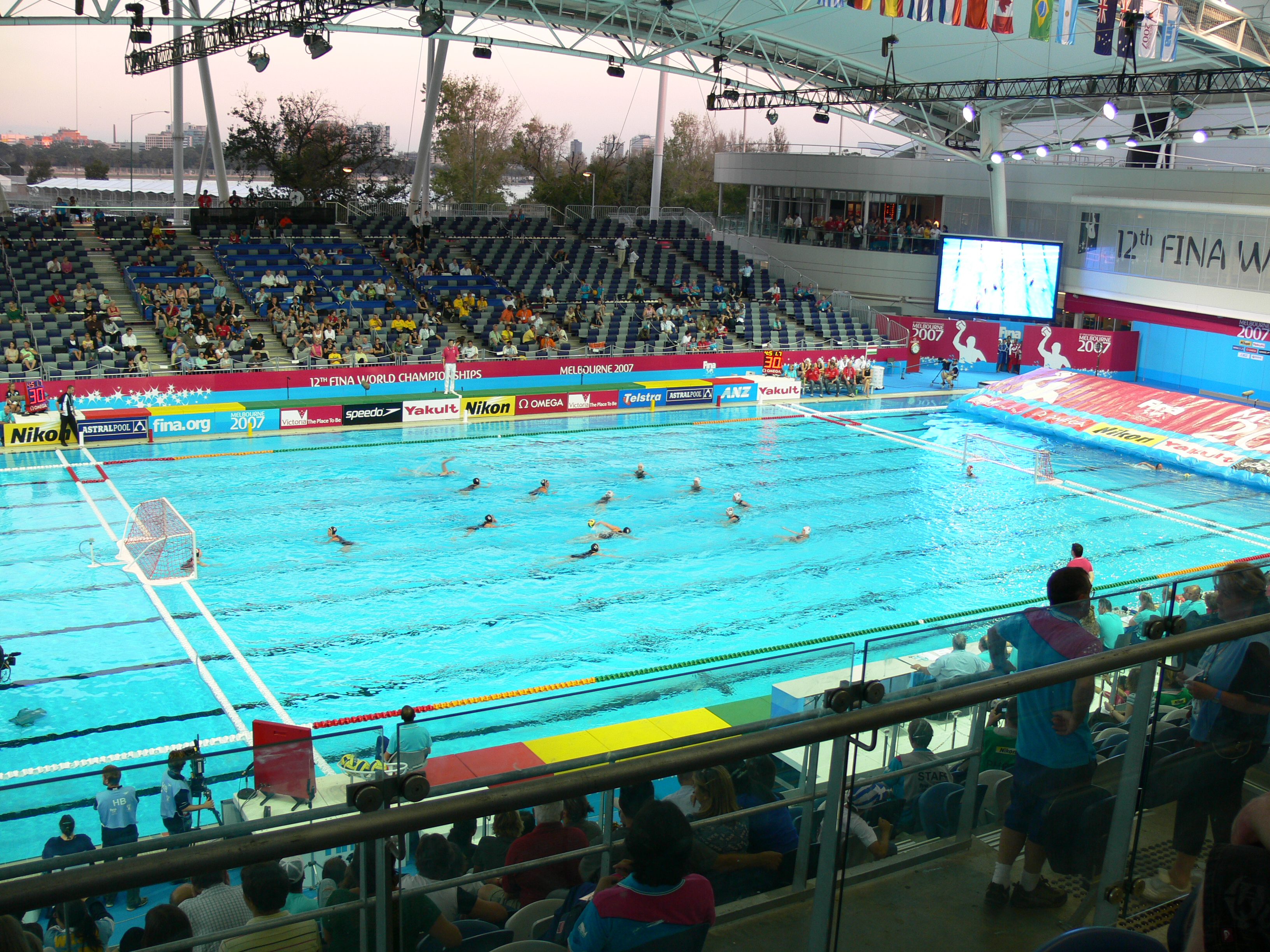 w:2007 World Aquatics Championships women's water polo tournament.